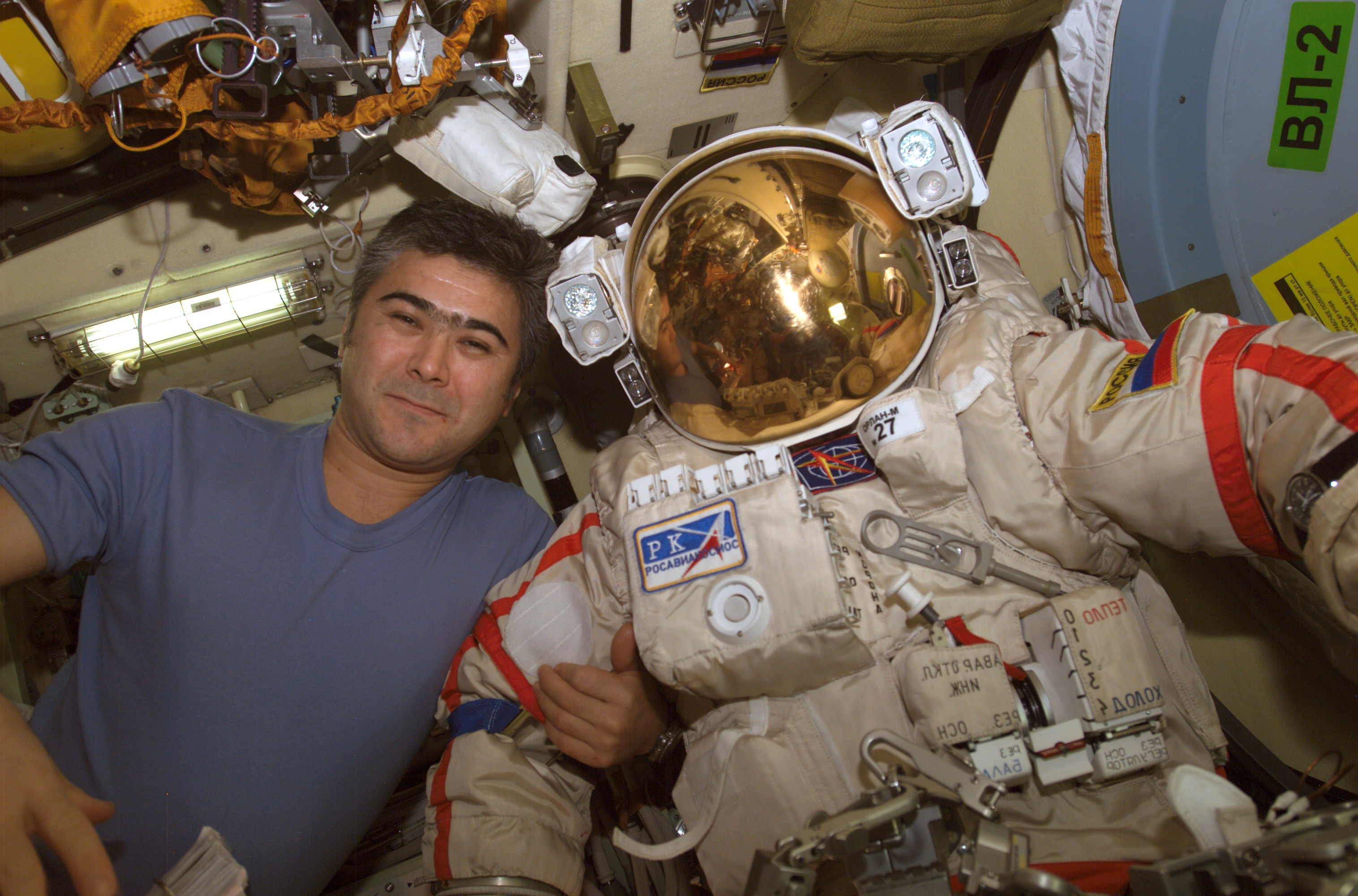 Cosmonaut Salizhan S. Sharipov, Expedition 10 flight engineer representing Russia's Federal Space Agency, poses with his Russian Orlan spacesuit in the Pirs Docking Compartment of the International Space Station (ISS). Sharipov and astronaut Leroy Chiao (out of frame), commander and NASA ISS science officer, were conducting extravehicular activity (EVA) preparations for the spacewalk scheduled for January 26.